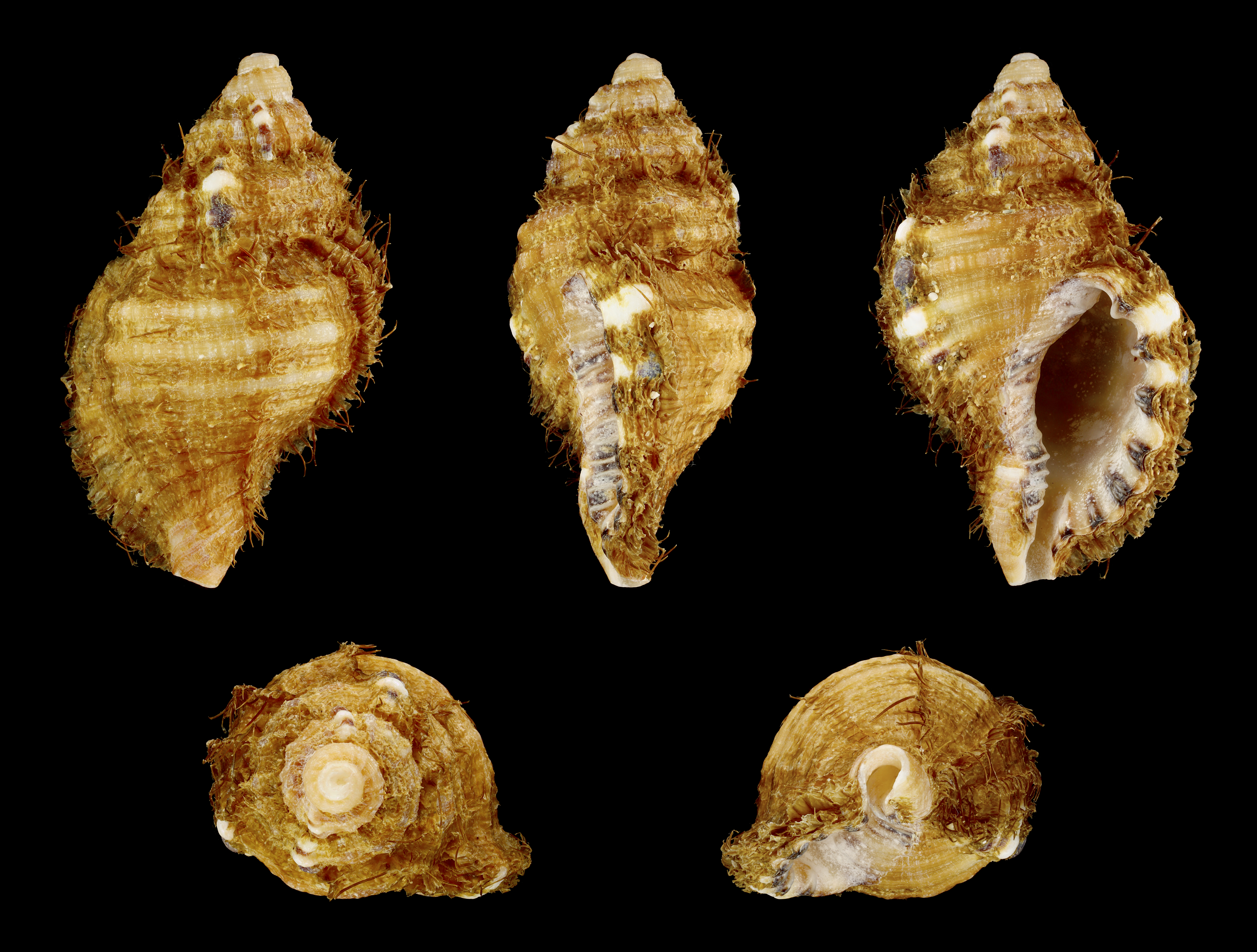 Monoplex parthenopeus (Salis Marschlins, 1793), Giant Hairy Triton; Length 7.1 cm; Originating from the Atlantic coast about 200 km south of Dakhla, Western Sahara; Shell of own collection, therefore not geocoded.